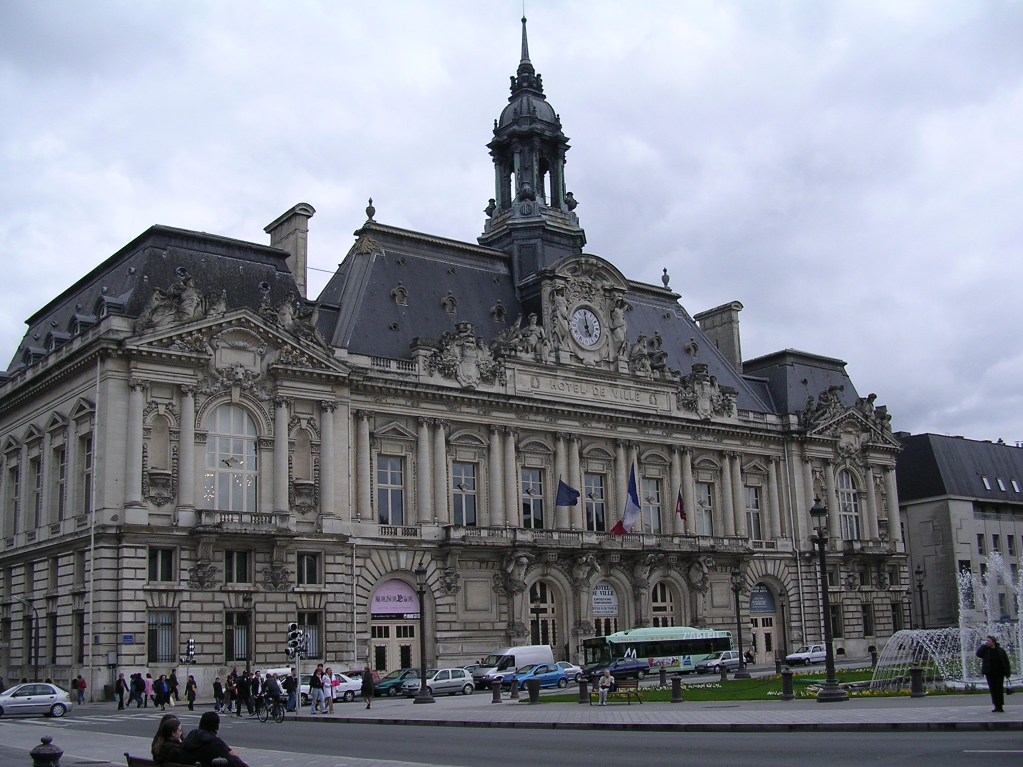 Town hall of Tours (France).